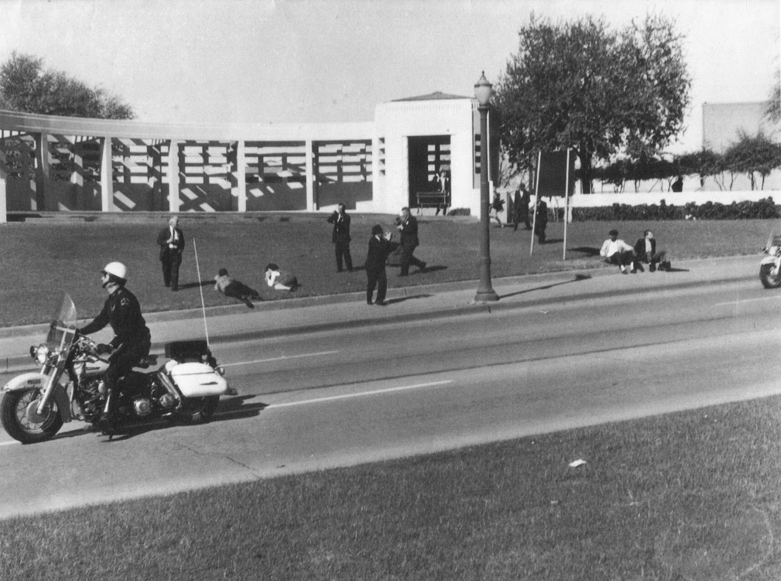 Assassination of JFK aftermath at Dealey Plaza; The Umbrella Man is sitting next to the road sign (the man on the right side)